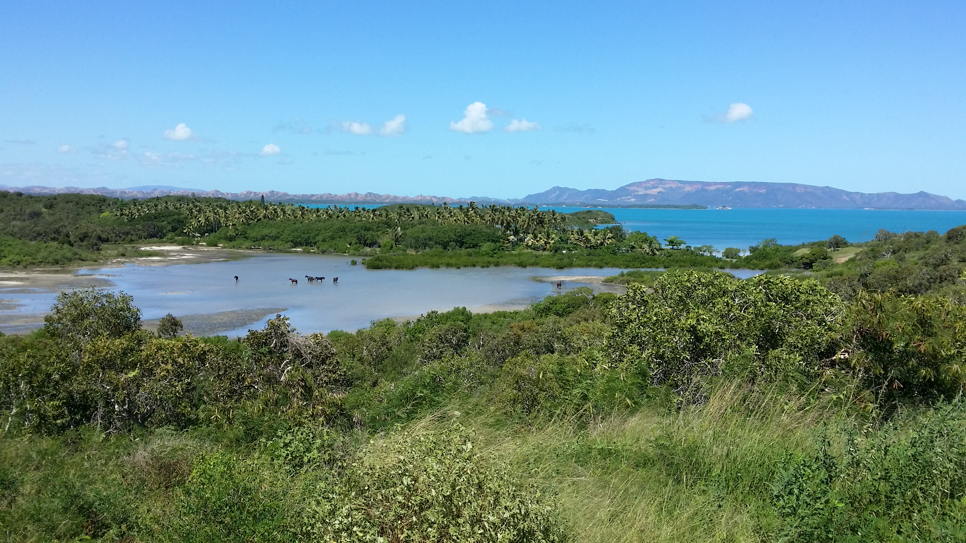 Poum (New-Caledonia), Tiabet, wild horses.